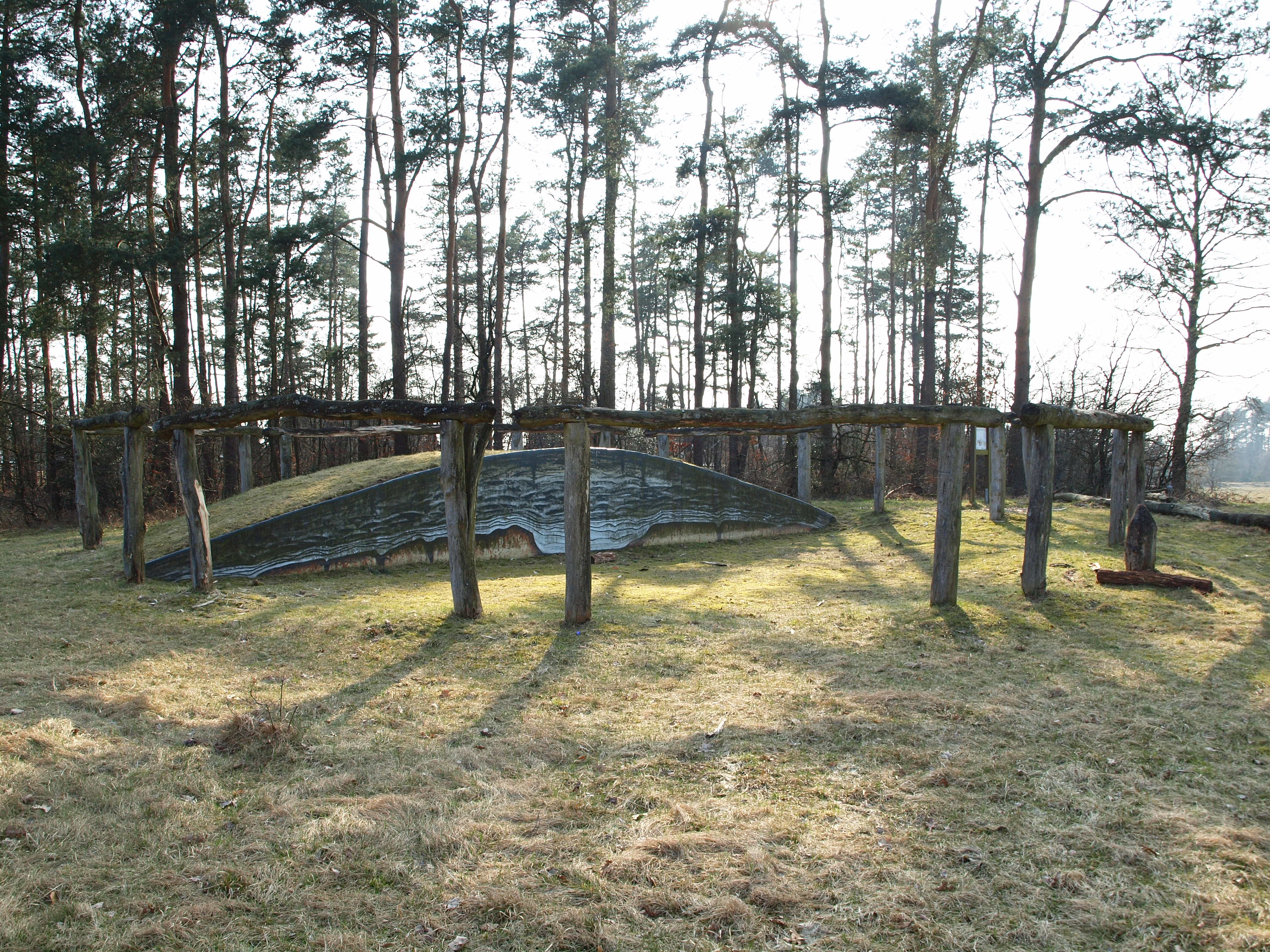 Tumulus in the archaeological teaching path in Oesterholz-Haustenbeck